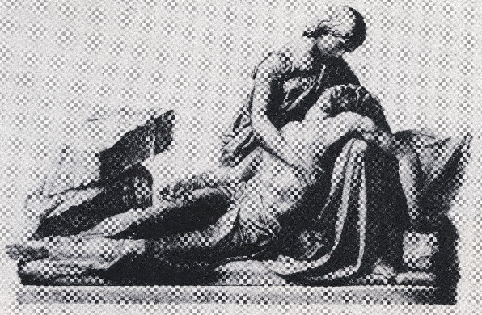 Mary Wollstonecraft Shelley and Percy Bysshe Shelley. Stipple engraving.